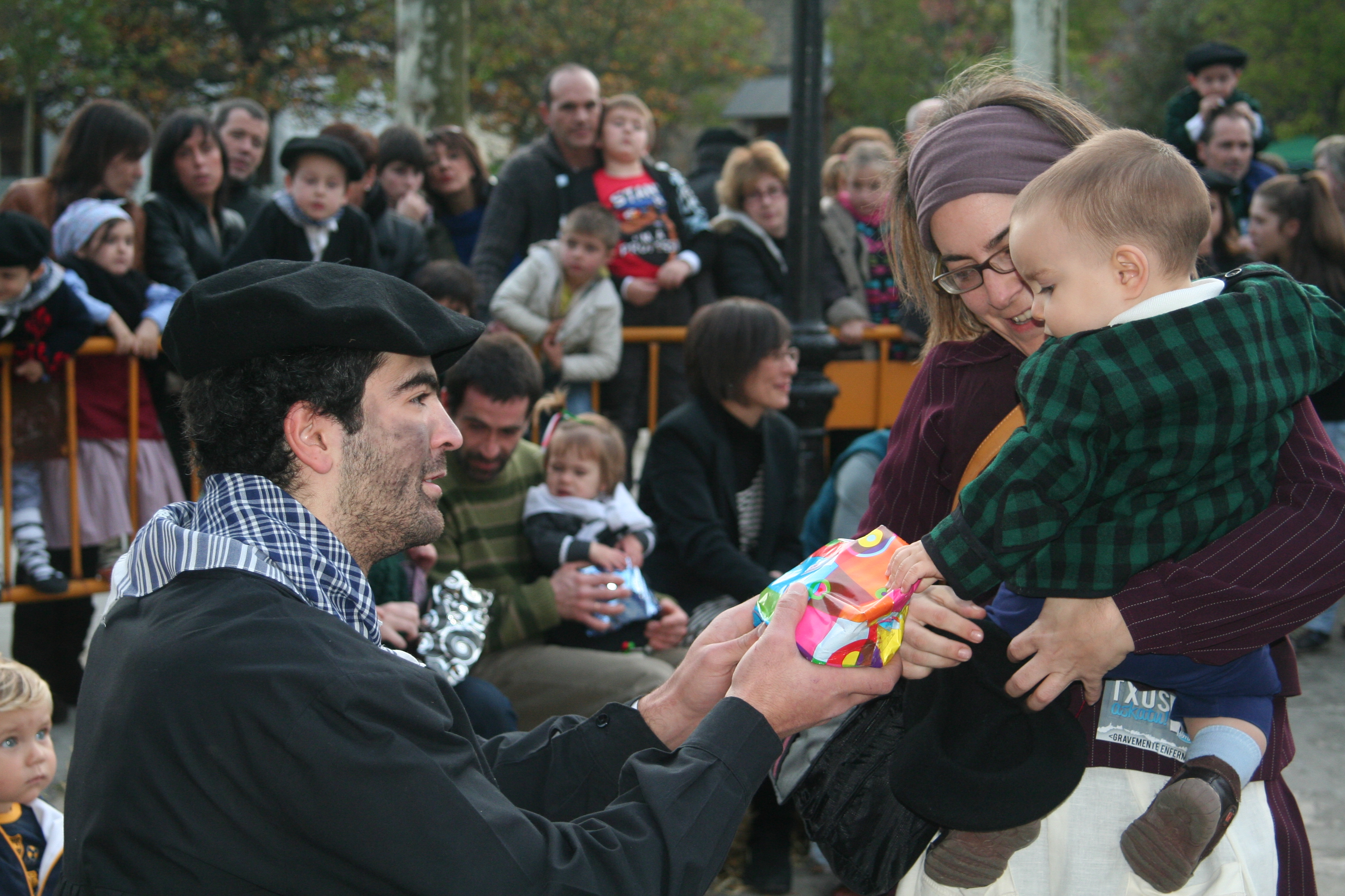 Olentzero in Aiaraldea.